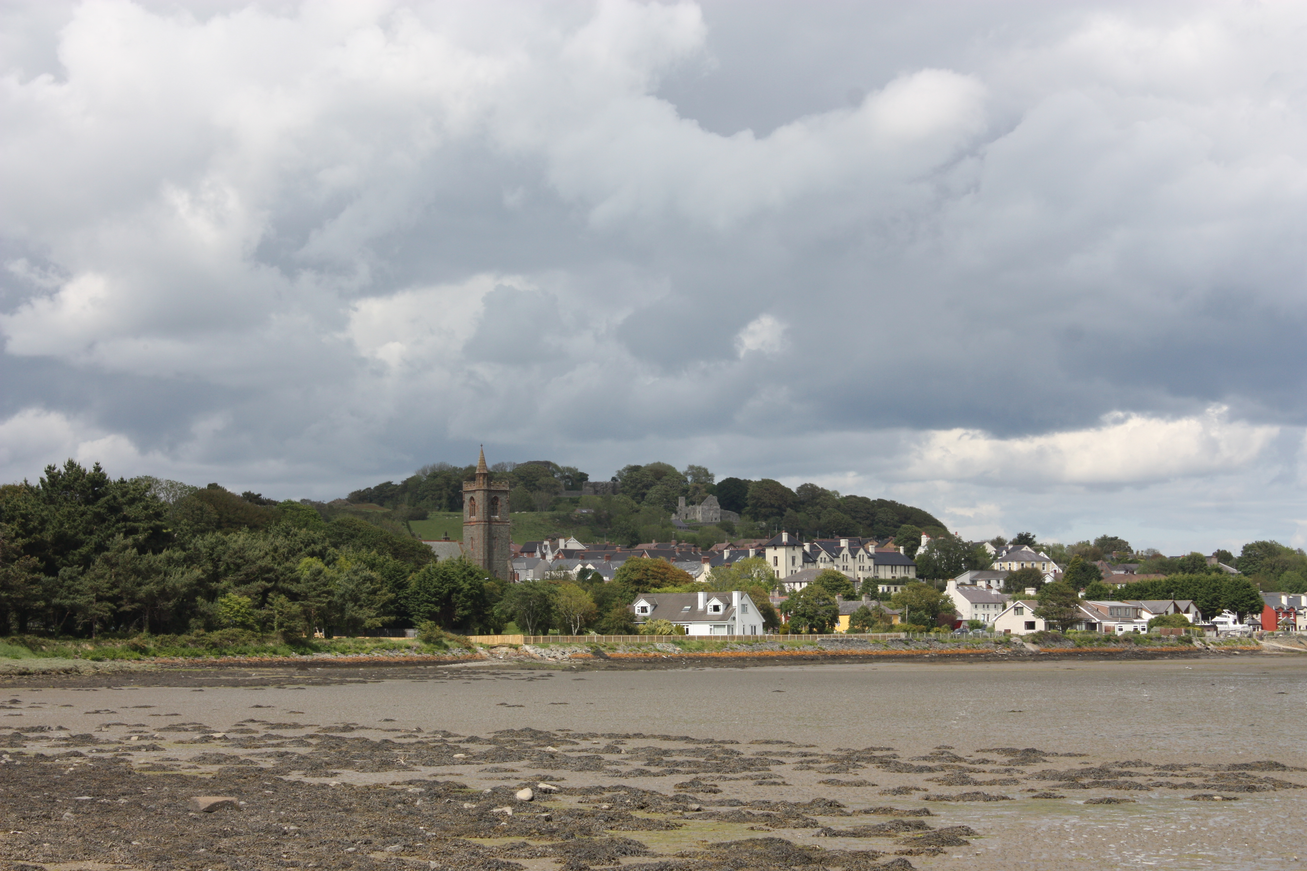 Dundrum Bay (viewed from Keel Point looking towards Dundrum), Dundrum, County Down, Northern Ireland, May 2011